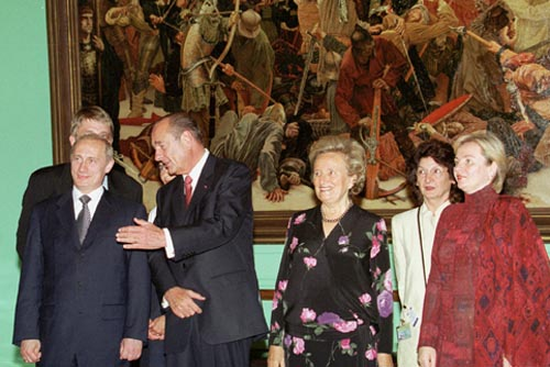 THE GRAND KREMLIN PALACE, MOSCOW. An official dinner in honour of French President Jacques Chirac and his spouse Bernadette Chirac.